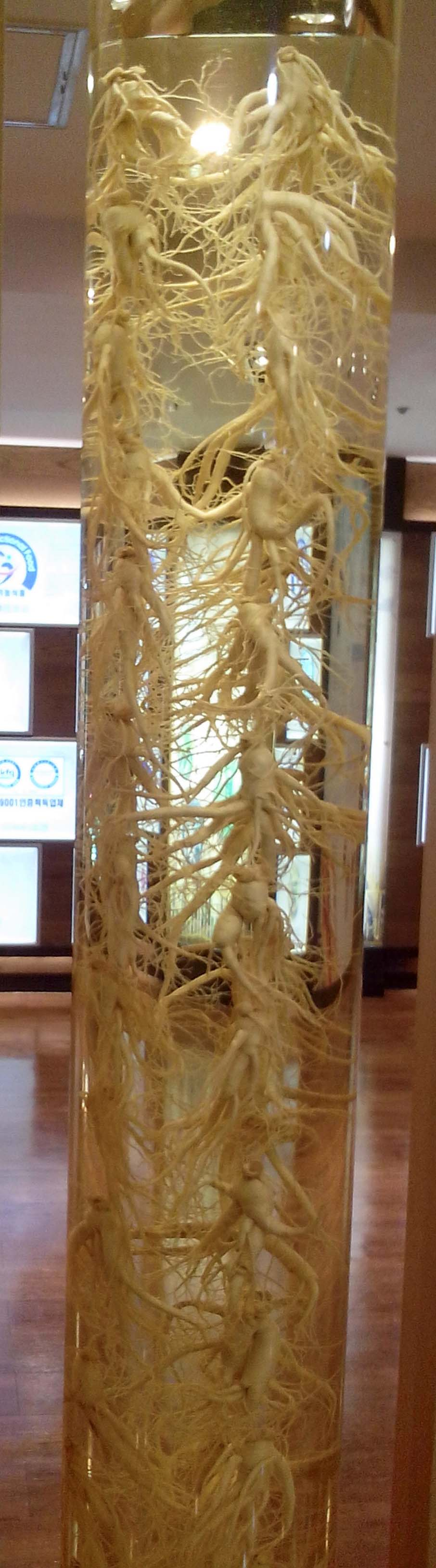 Korea Ginseng